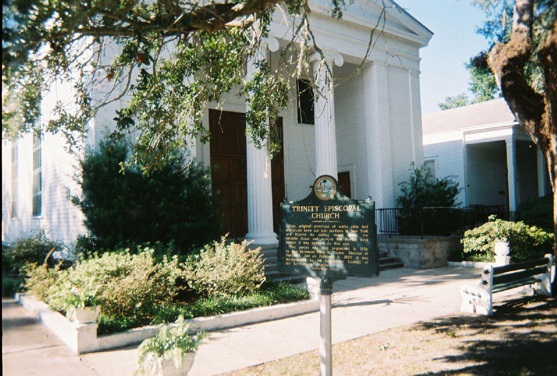 Apalachicola, Florida: Trinity Episcopal Church